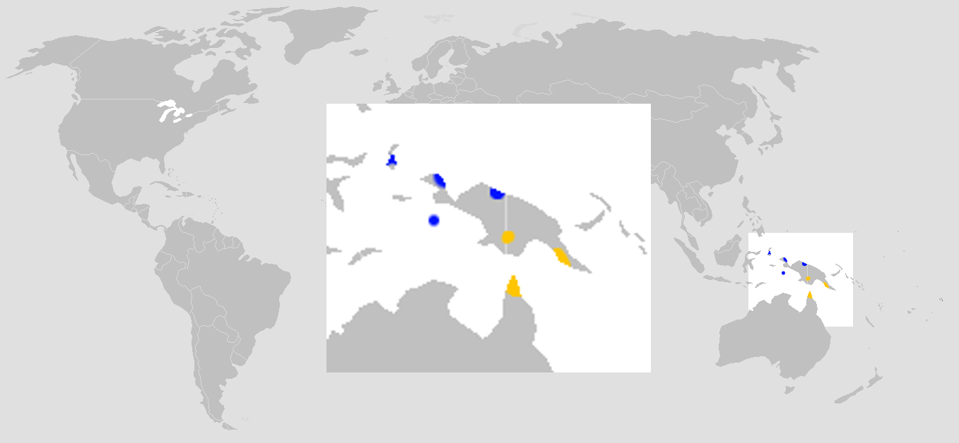 Known world distribution of the Salticidae genus Ohilimia; blue = Ohilimia albomaculata, orange = Ohilimia scutellata. After (Gardzińska 2006).